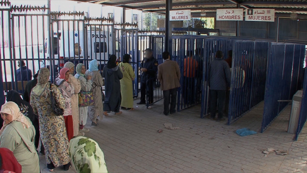 CIEN METROS MÁS ALLÁ •Documental 2008 •Dir. Juan Luis de No •Exec. Prod. Stéphane M. Grueso •elegant mob films / Odisea / TVE •1 x 66' / 56' / color / stereo •HD - HDCAM Alrededores de Melilla, una pequeña porción de Europa dentro del continente africano, frontera terrestre entre Europa y África. Miles de personas sobreviven del contrabando y esperan una oportunidad para mejorar su existencia. Mientras tanto la economía global avanza inexorablemente sin tener en cuenta sus pequeñas vidas. Más info: ENGLISH --------------------------------------------------- ONE HUNDRED METERS AWAY •Documentary 2008 •Dir. Juan Luis de No •Exec. Prod. Stéphane M. Grueso •elegant mob films / Odisea / TVE •1 x 66' / 56' / color / stereo •HD - HDCAM The untold story of one of the world's hot spots where thousands of workers beast of burden in a struggle to survive. One hundred meters away takes place in Melilla, the terrestrial border between Africa and Europe; a portion of Europe wedged in the African continent, where mobs gather to fight for the scraps of a booming business: smuggling, while waiting for a chance to better their lives. Meanwhile, the Global economy moves on inextricably oblivious of its influence over simple human beings.